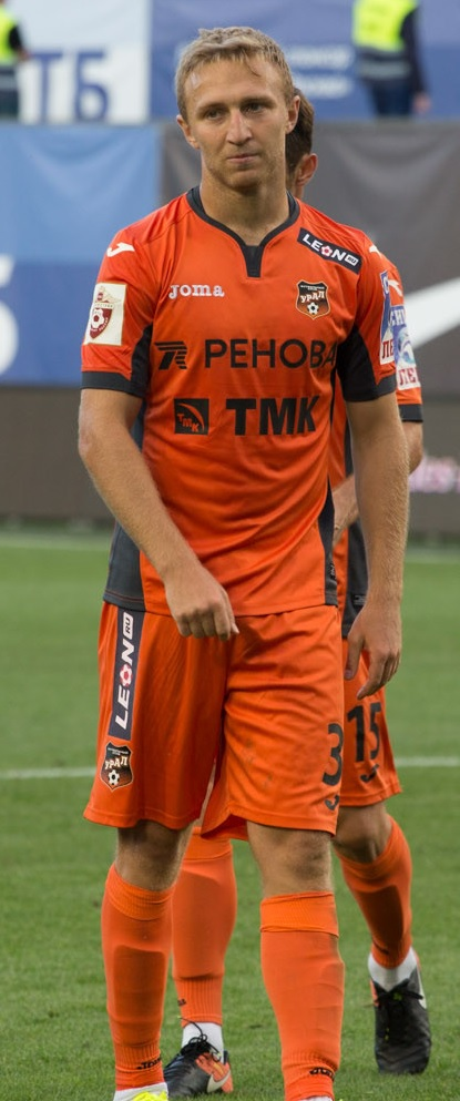 Varazdat Haroyan with FC Ural Yekaterinburg in a game against FC Dynamo Moscow.